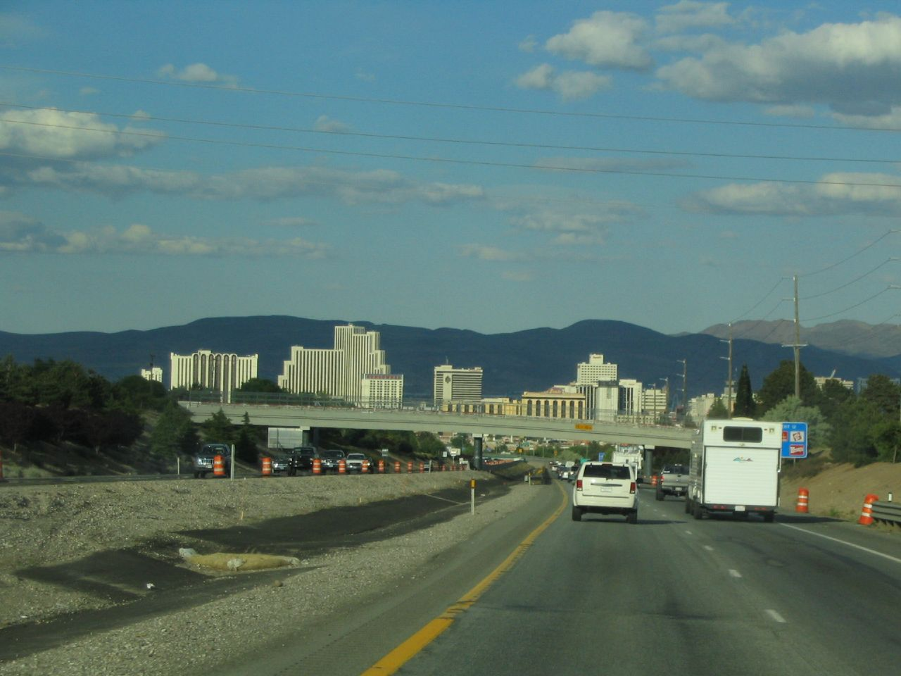 Reno is a city in the US state of Nevada. Known as "The Biggest Little City in the World", Reno is famous for its casinos and as the birthplace of Caesars Entertainment Corporation. The city is situated in the northwestern part of the state and is the county seat of Washoe County. Reno is the most populous Nevada city outside of the Las Vegas metropolitan area. As of the 2010 census, the city had a population of 225,221 making it the fourth most populous city in the state after Las Vegas, Henderson, and North Las Vegas. The city sits in a high desert at the foot of the Sierra Nevada and its downtown area (along with Sparks) occupies a valley informally known as the Truckee Meadows. Reno is part of the Reno–Sparks metropolitan area which consists of all of both Washoe and Storey counties and has a 2013 estimated population of 437,673. making it the second largest metropolitan area in Nevada.